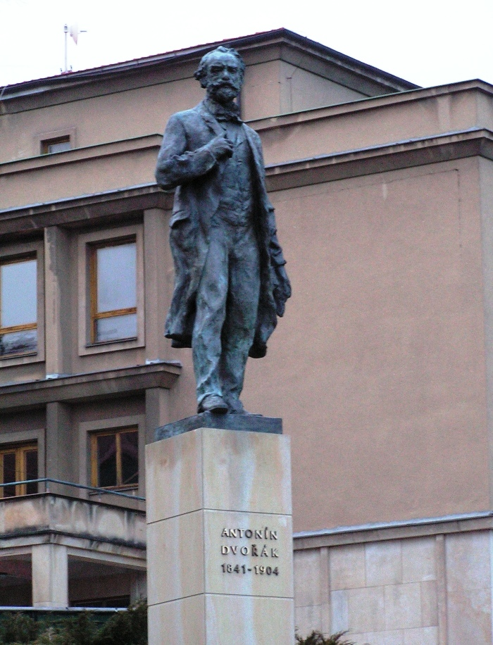 Statue of composer Antonín Dvořák near House of Culture in Příbram.